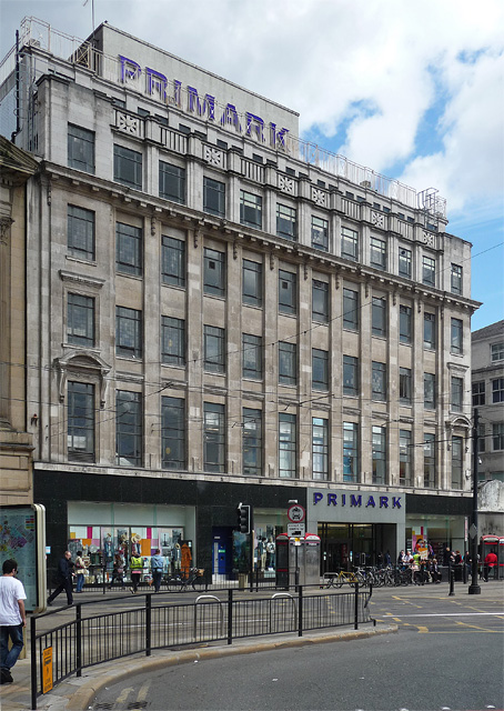 By J.W. Beaumont & Sons, 1915, "then the biggest store in the provinces", and extended twice in the 1920s. The department store came to Manchester in the 1880s, and departed in 2001. Now a Primark store